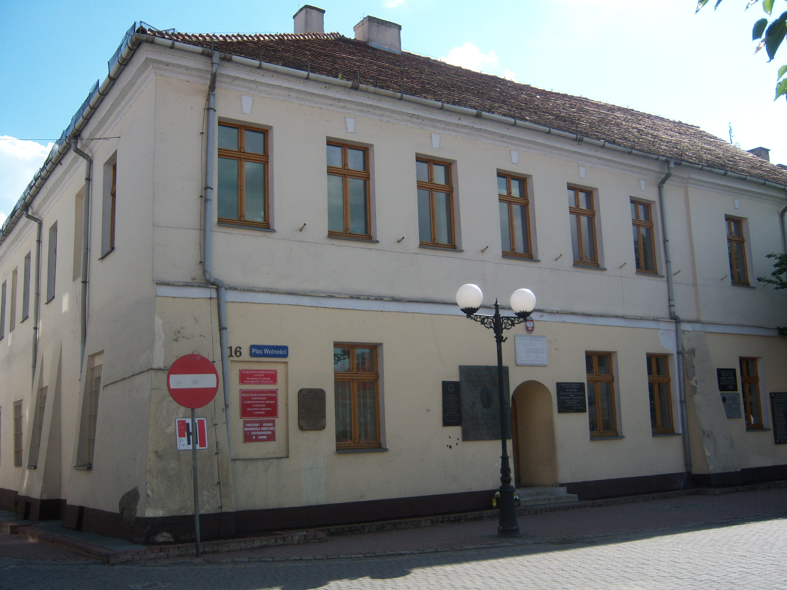 House at Liberty Square, 16 of the sixteenth century